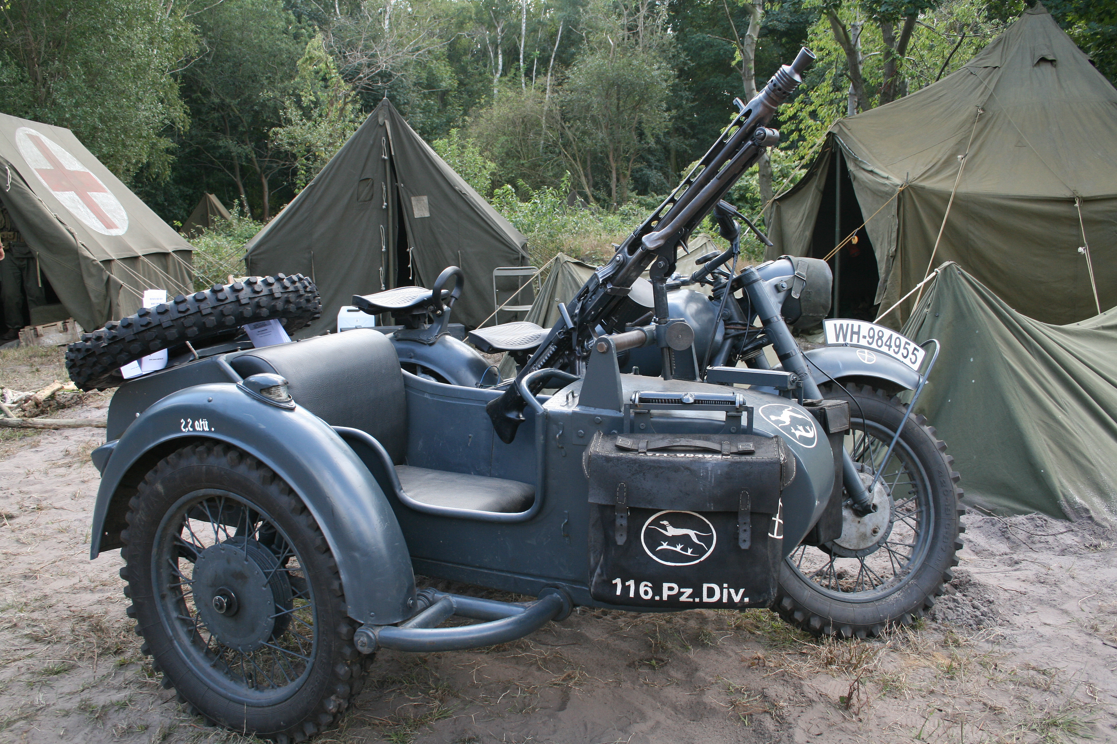 BMW R75 motorcycle with sidecar of the 116. Pz. Div.